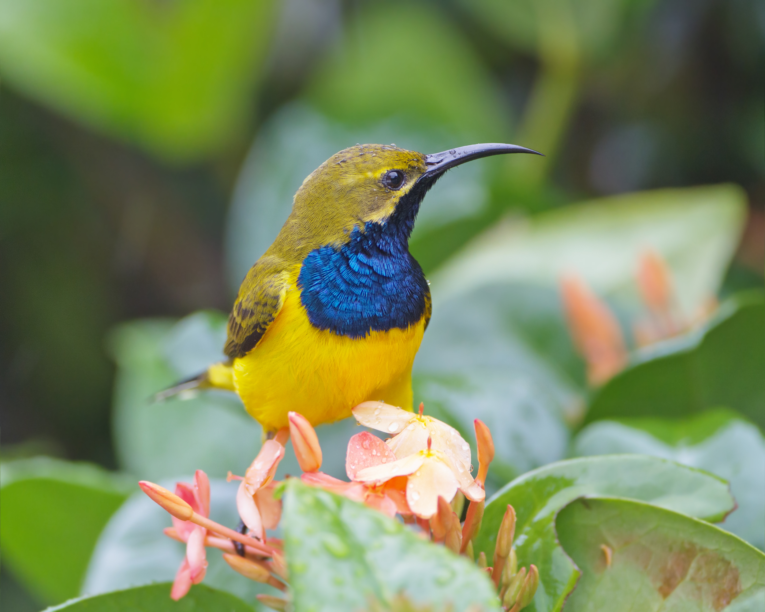 Olive-backed Sunbird (Cinnyris jugularis) near Thornton Beach, Daintree, Queensland Australia